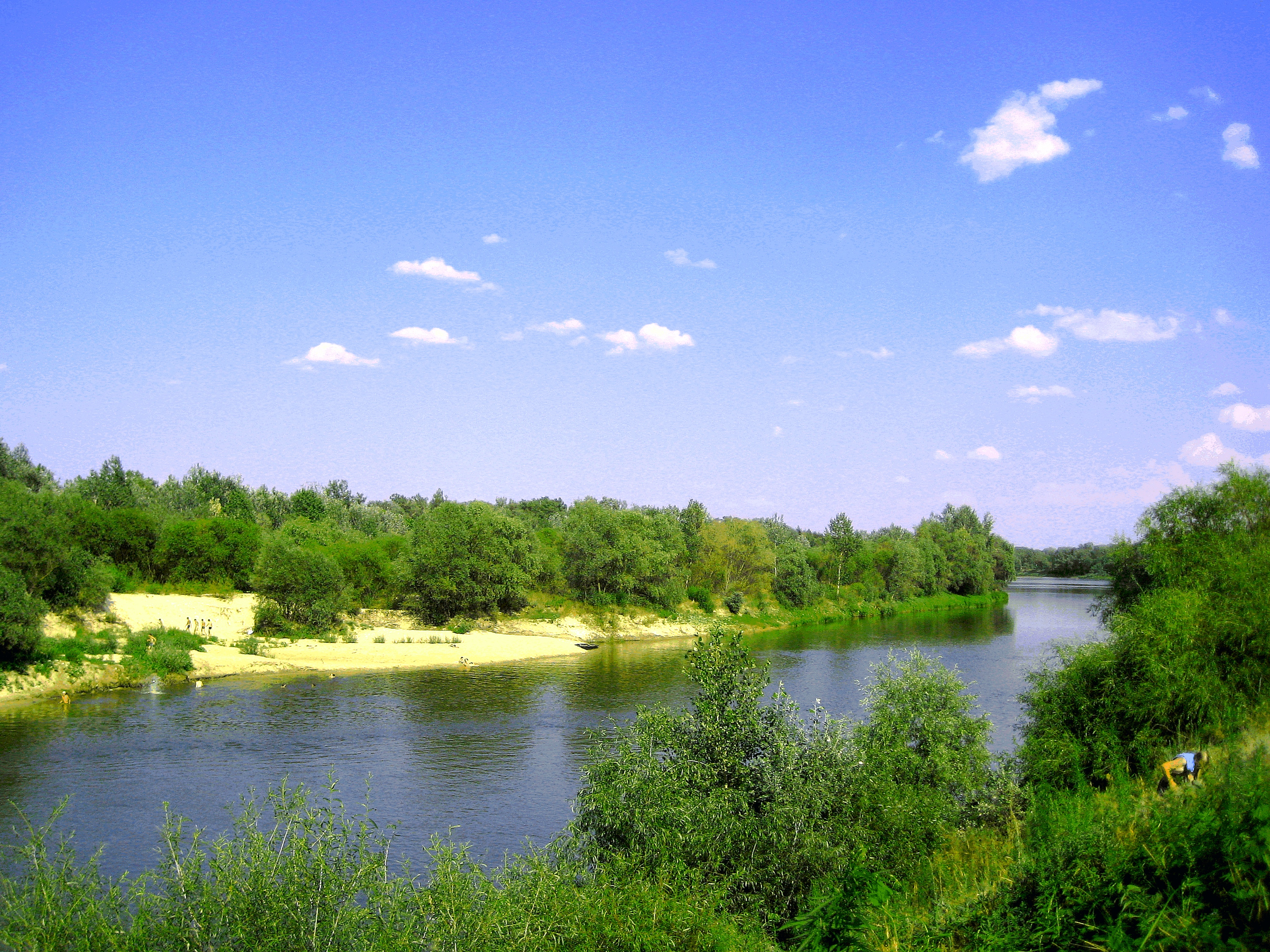 Khopyor River in the Voronezh Region: Voronezh Region This image is related to the protected area of Russia number 3610259